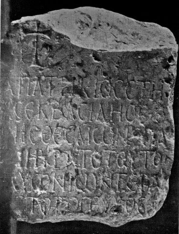 5th-century CE Roman inscription on limestone mentioning Patricius (jurist). Unearthed in 1906 in Beirut. Base disappeared in the 1920s.